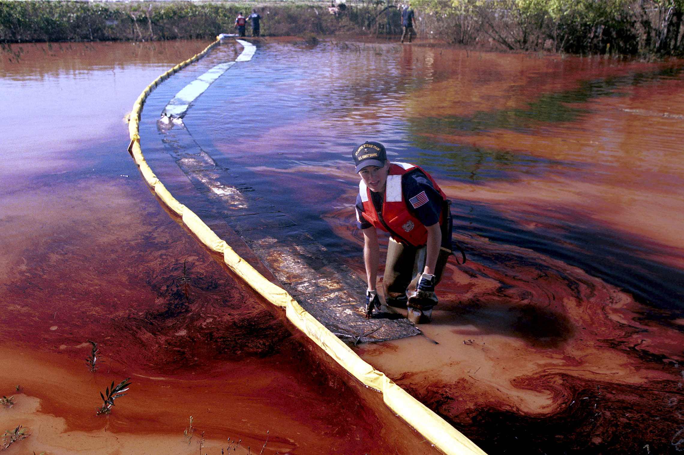 Bown Brook, NJ -- US Coast Guard work with EPA in cleaning up oil spills following flooding in NJ.